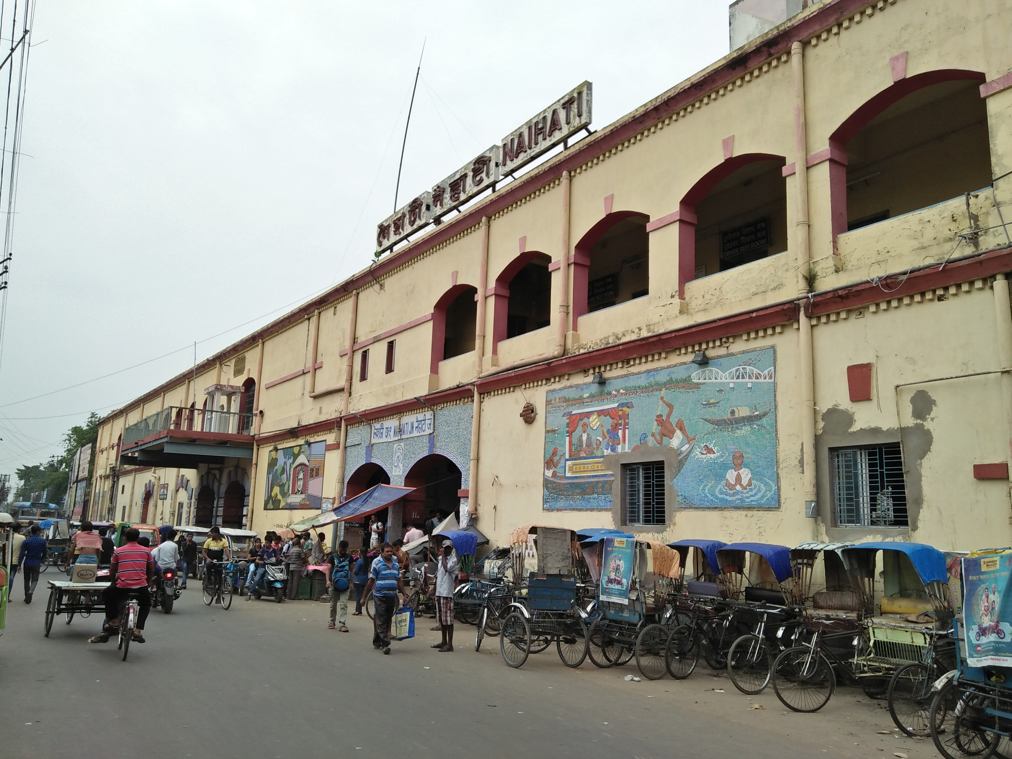 Photographed in greater Kolkata.